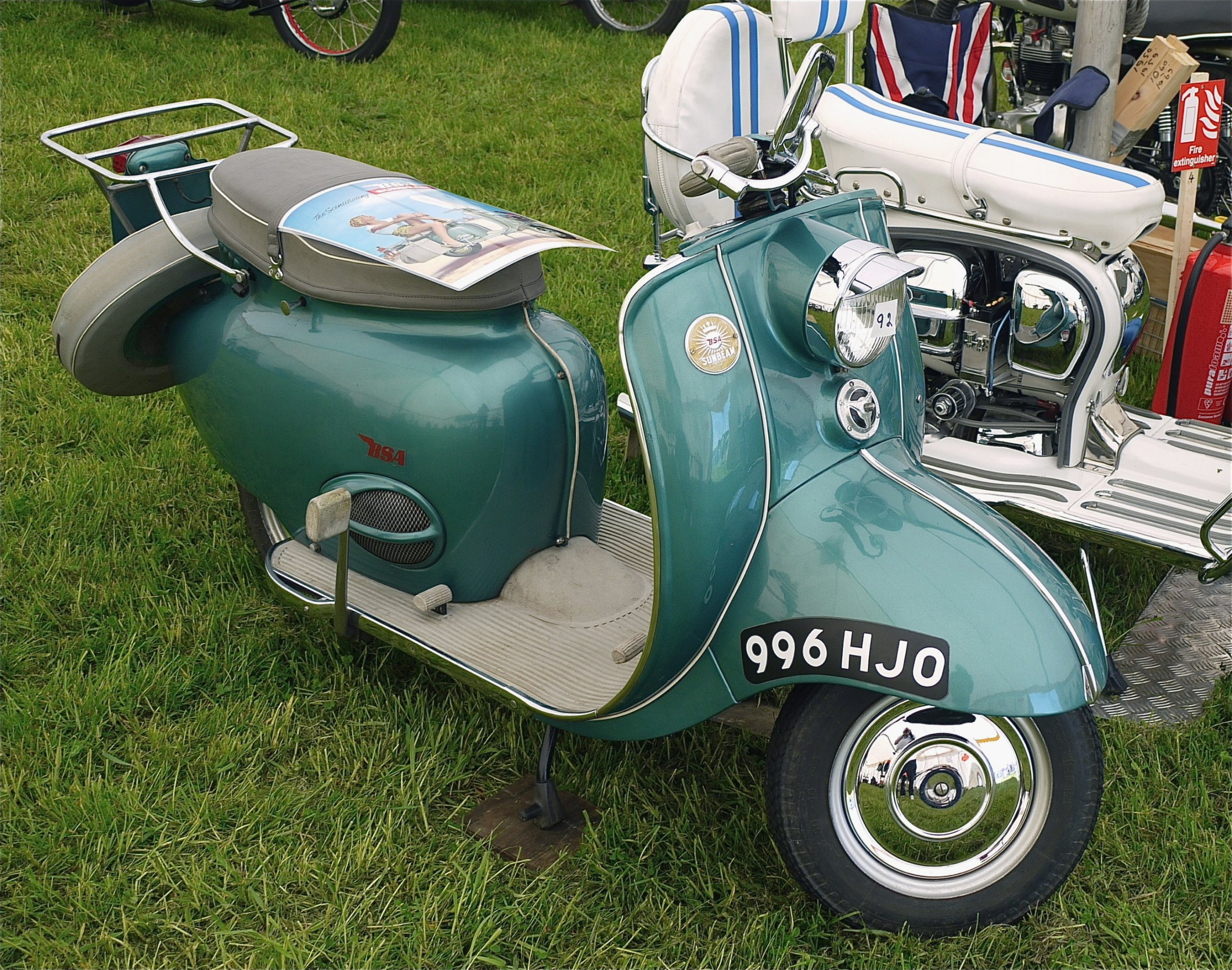 BSA Sunbeam 250cc scooter